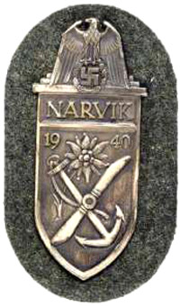 Narvikschild, awards/decorations of the military of Germany